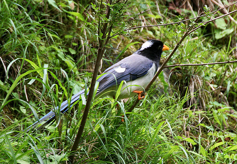 Yellow-billed Blue Magpie Urocissa flavirostris at Kullu District of Himachal Pradesh, India. This bird created lot of interest among the trekkers by its sheer beauty. Their music enhanced when pairs of them were seen courting, displaying, flying & calling together, moving from one branch to another, from higher altitude to lower one in slow steps. Breeding Territory was successfully defended by many birds as & when these birds entered into their domain. These birds were themselves busy in collecting nesting material etc. Taken at Pulga village (7000 ft.) at 11 hrs. on 12/5/07 while returning back from Sar Pass.